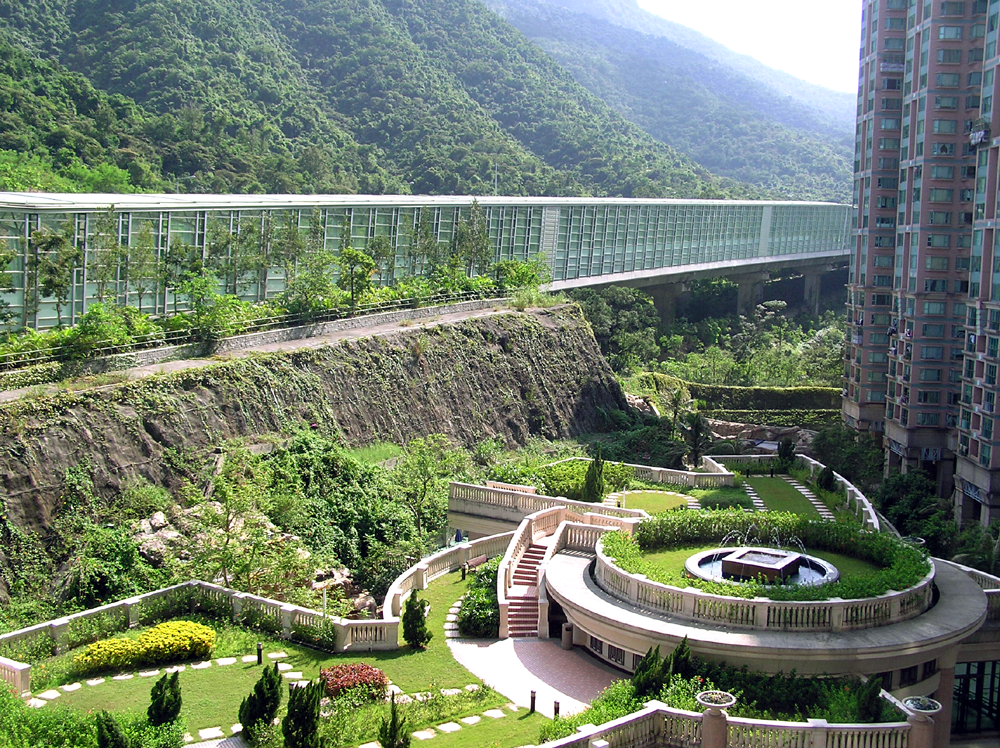 Monte Vista, Ma On Shan, Sha Tin, New Territories, Hong Kong